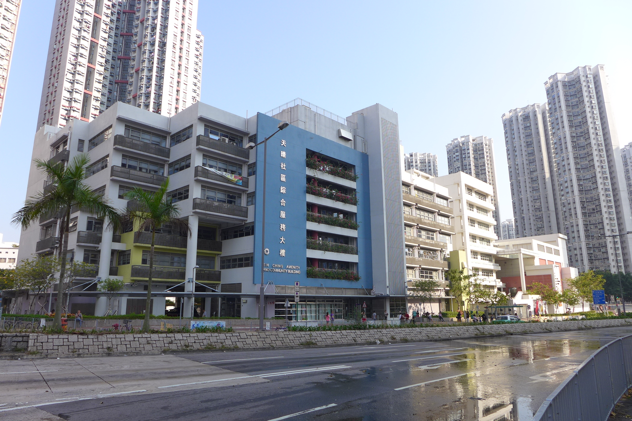 Tin Ching Amenity & Community Building